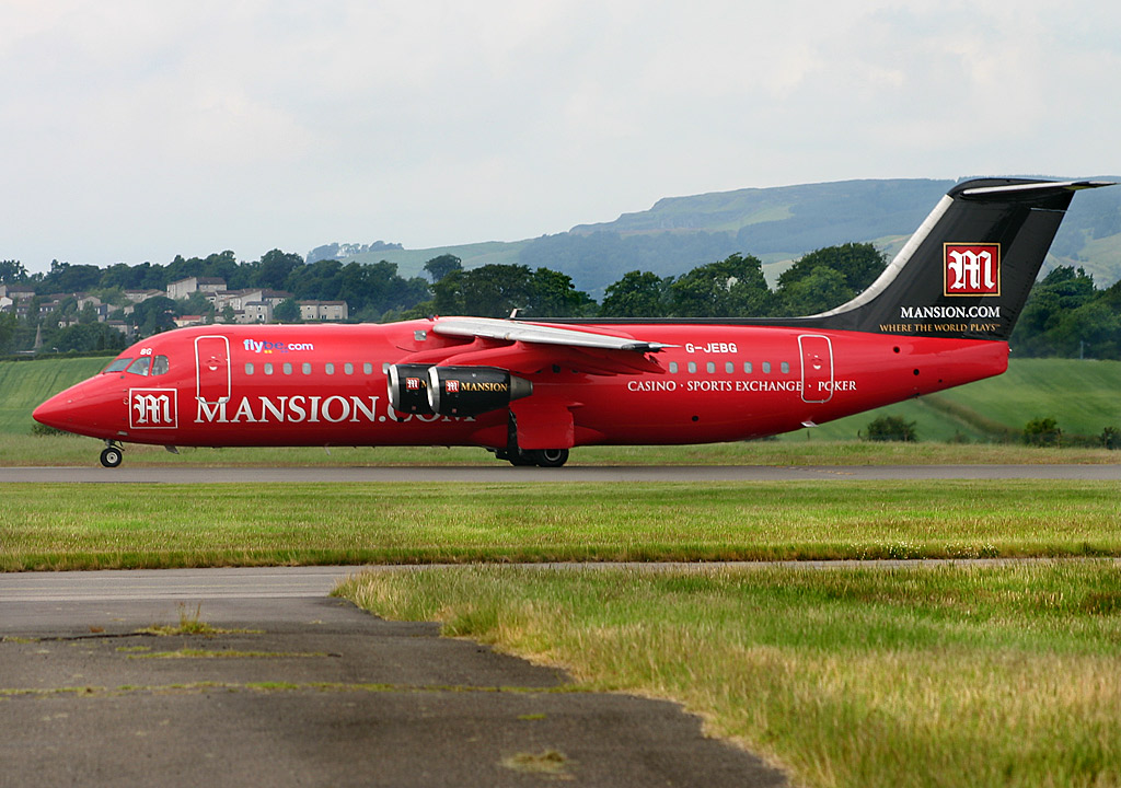 Flybe Avro RJ